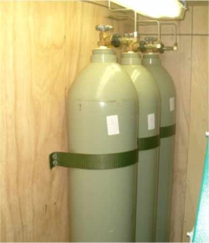 I photographed this myself